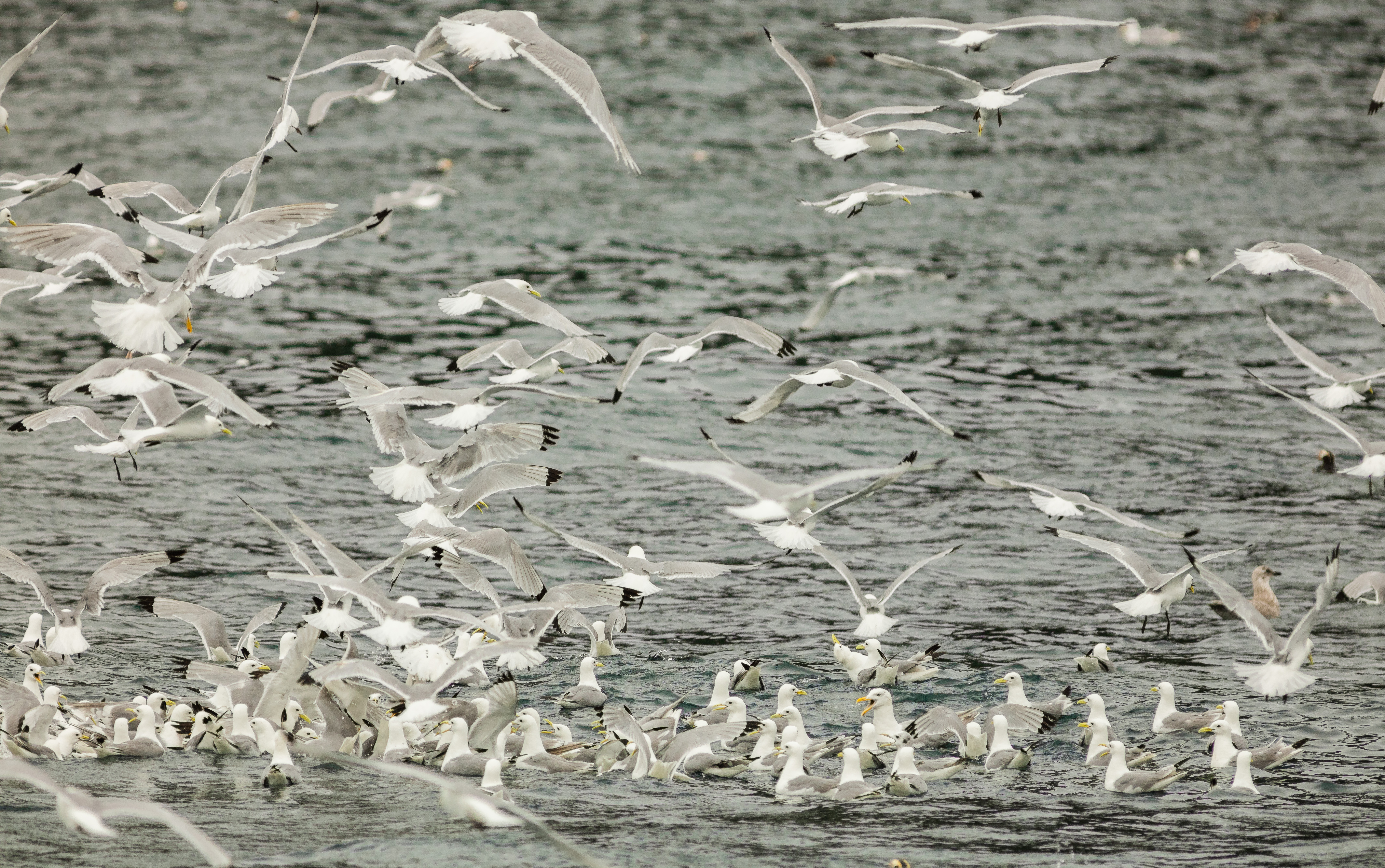 Flock of Black-legged Kittiwakes Rissa tridactyla (and 3 Glaucous-winged Gulls L. glaucescens), Resurrection Bay, Seward, Alaska, United States